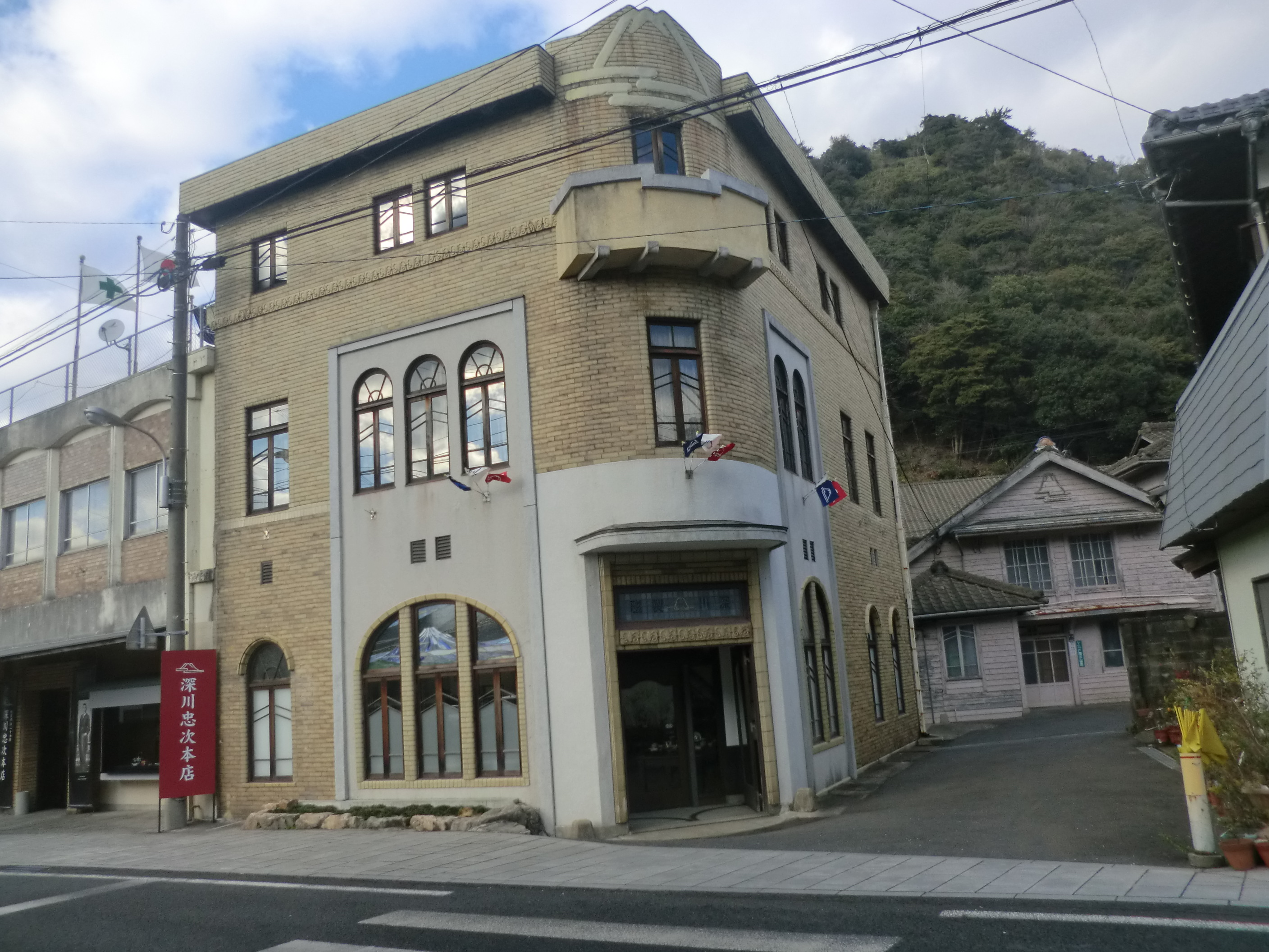 Fukagawa Porcelain of Arita,Saga,Japan.